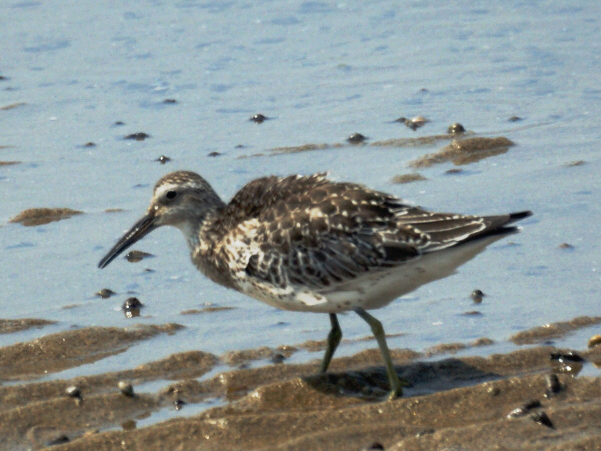 Great Knot